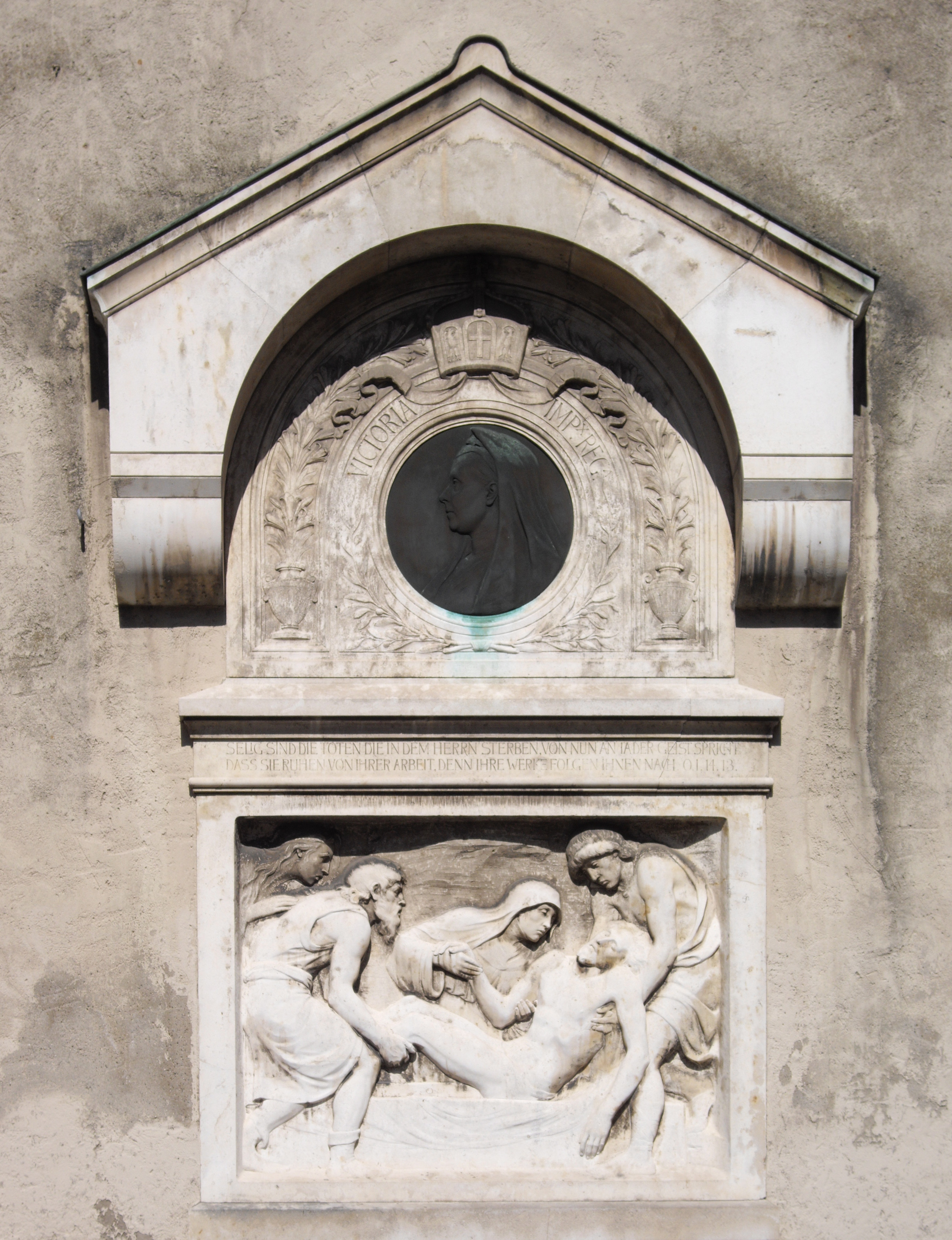 Relief with entombment of Christ and portrait of Empress Victoria, southwestern side of church tower of St. Johann, Kronberg, Taunus, Germany.